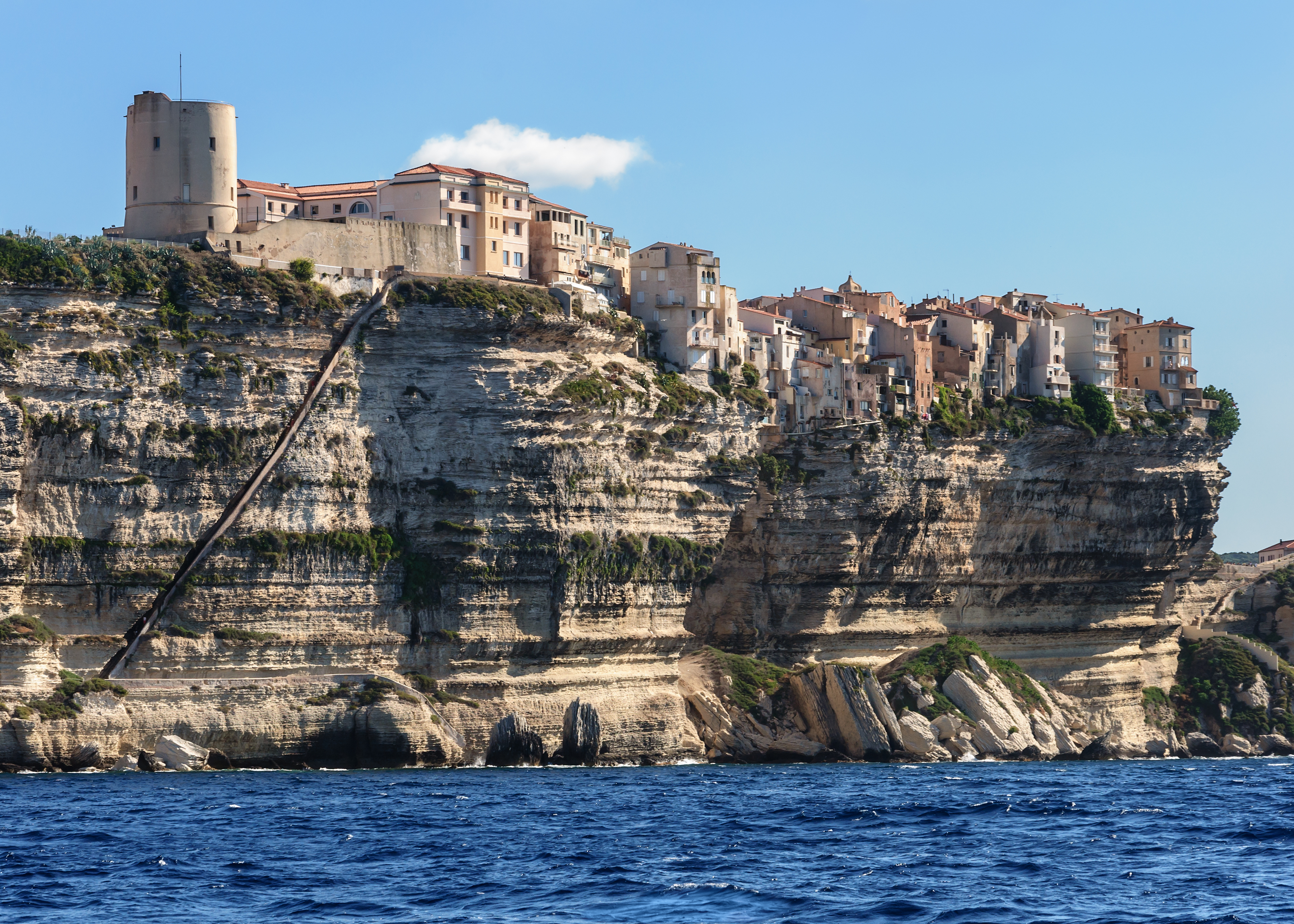 The King of Aragon staircase, carved into the cliffs of Bonifacio, Corsica, France.